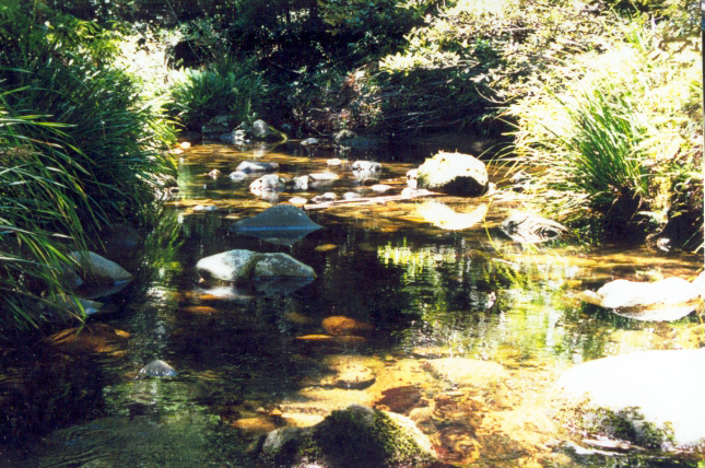 Washpool (Main Camping Ground River)